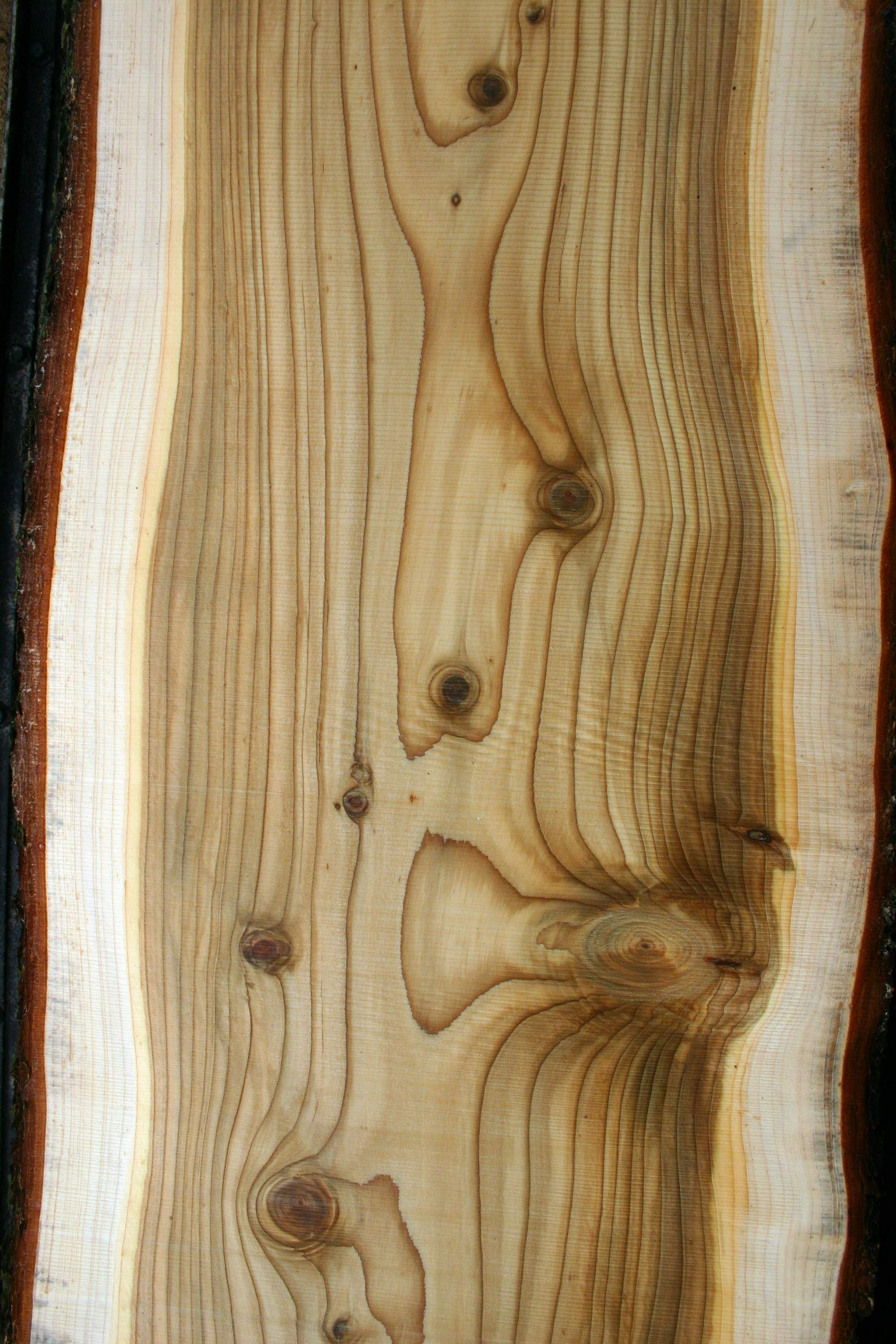 Longitudinal section of Cedrus deodara - cultivated tree grown in Johannesburg, South Africa